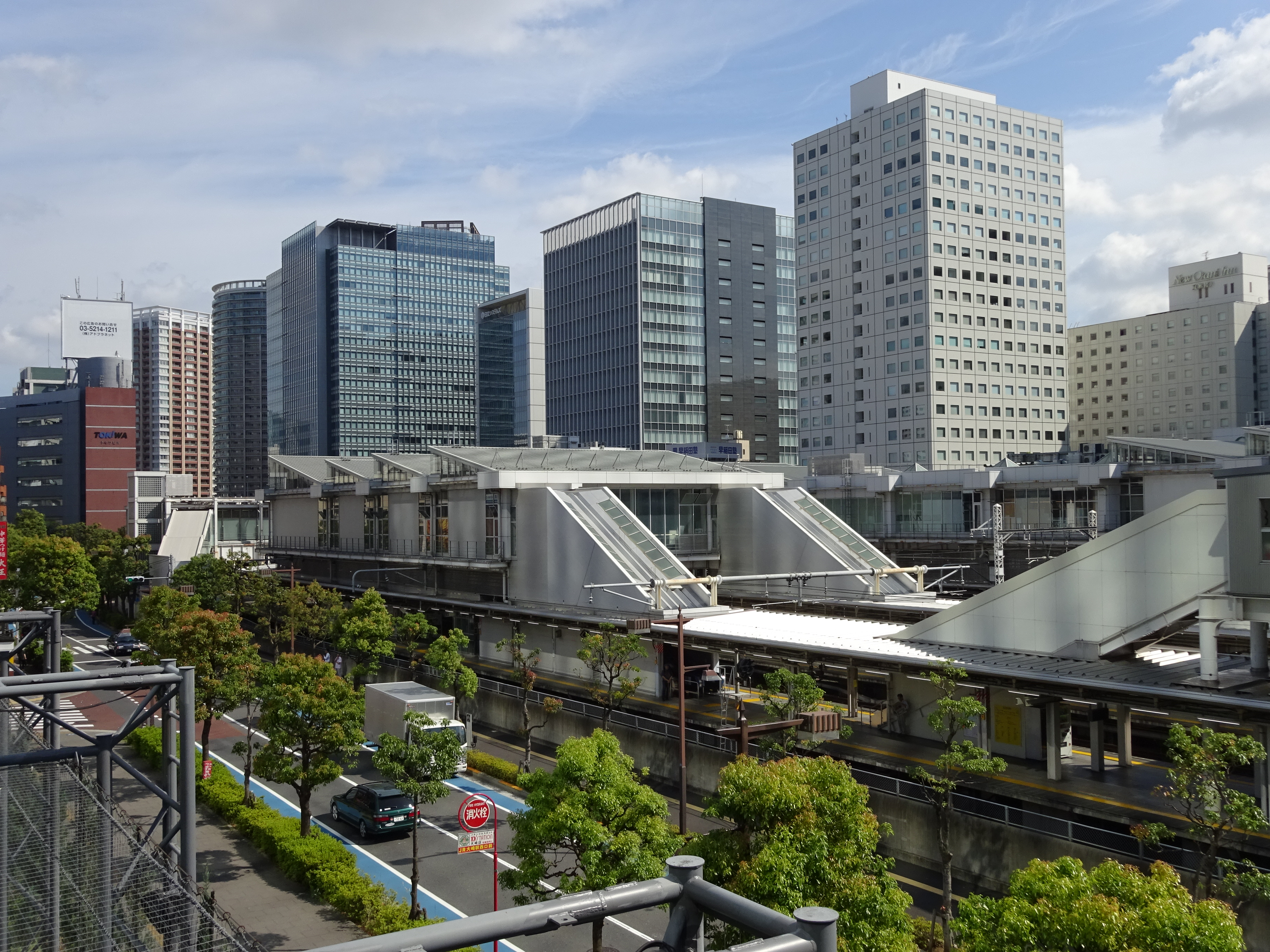 West Entrance of Ōsaki Station